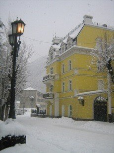 Looking down a street near the tourism district.